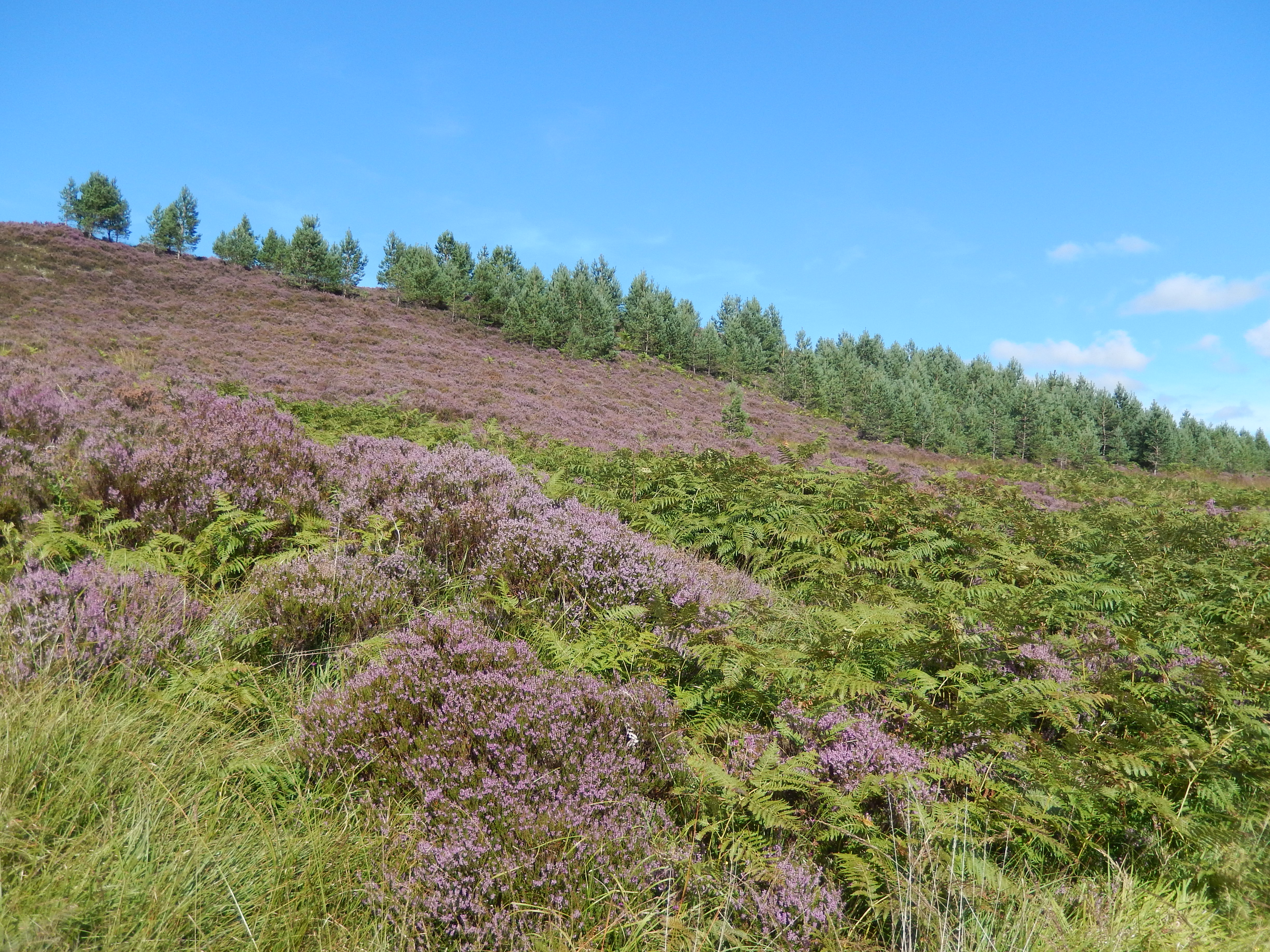 Corrimony Capercaillie Country - young Scots Pines and heather in RSPB reserve, trees planted by Trees for Life